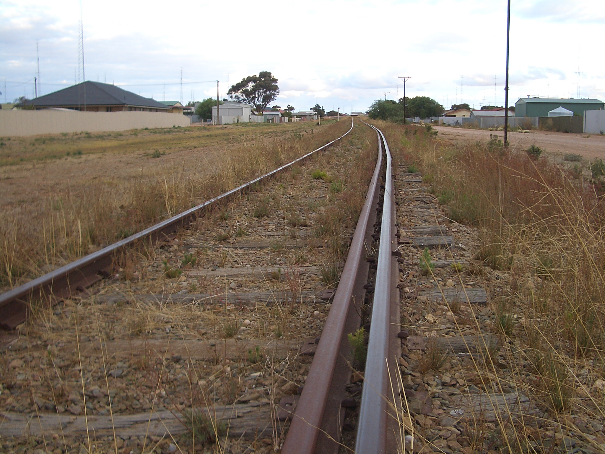 A dual-gauge railway track in Wallaroo (Yorke Peninsula, South Australia). The outer rail is for Irish gauge, the inner for standard gauge. Currently )March 2008), only the outer rail is continuous, and the rail line is occasionally used by an Irish-gauge tourist train. The inner rail is missing at some spots (e.g. around switches), and the tracks thus can't be used by standard-gauge rolling stock.